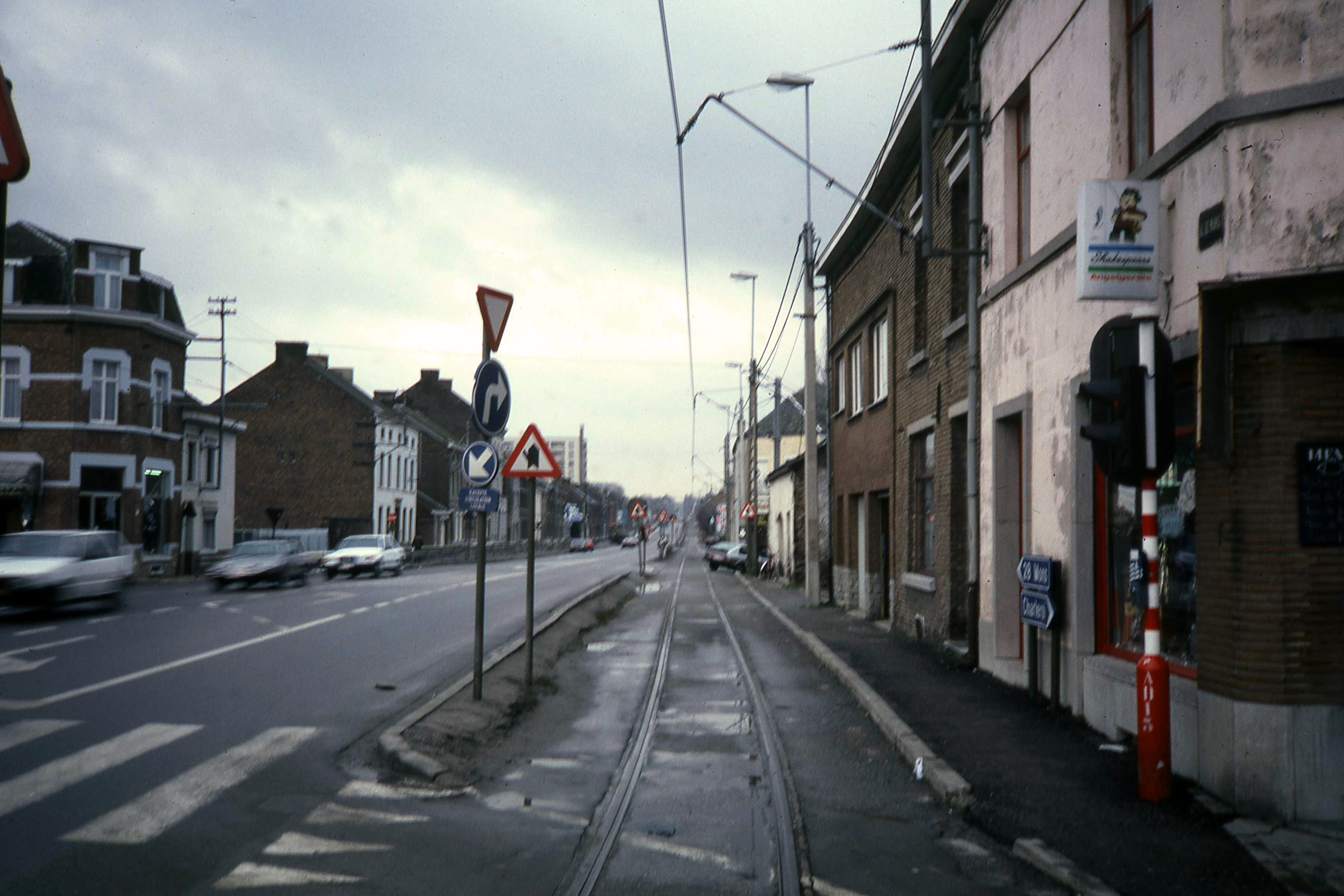 Direct tramroute bypassing the tramdepot as seen from monument. This was used by the direct tramline 90. Later is was used as part of a loop in Anderlues. Nowadays it is disused and al trams go via the tramdepot.